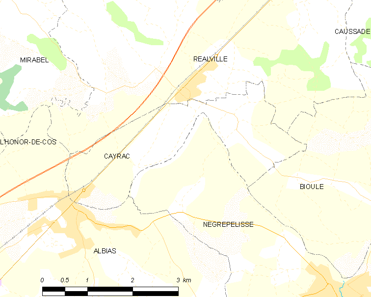 Map of French municipality Cayrac